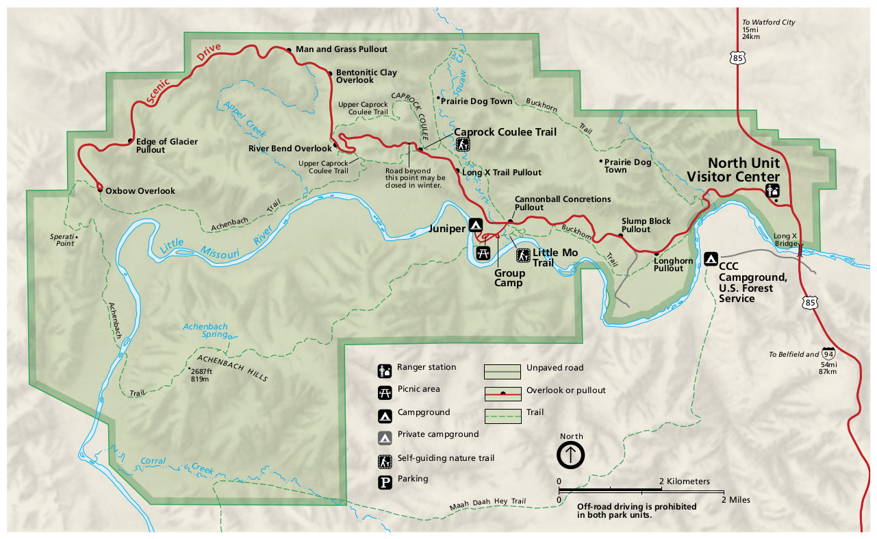 Official map of the north unit of Theodore Roosevelt National Park, featuring the visitor center, campgrounds, and trails.